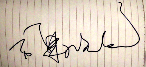 This is Benny Chan's signature.